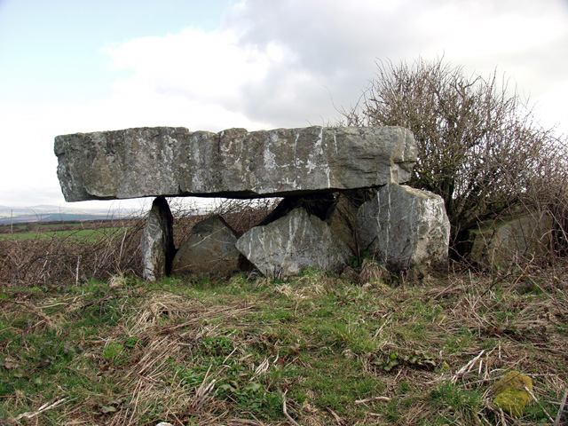 Pawton Quoit. Ancient burial chamber, with the heaviest capstone in Cornwall. Wadebridge can be seen on the horizon